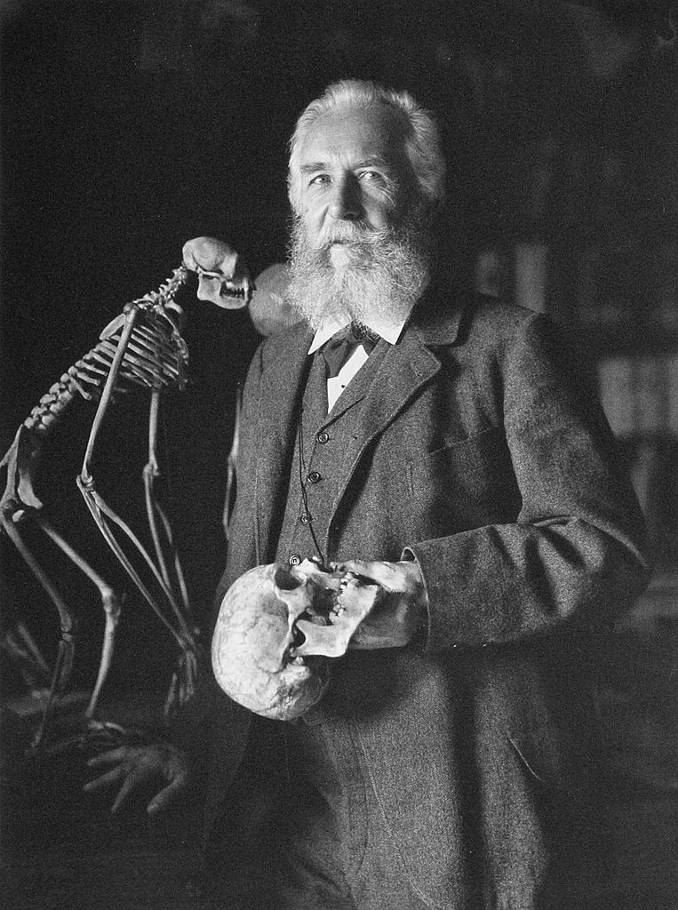 Ernst Haeckel, German biologist and naturalist